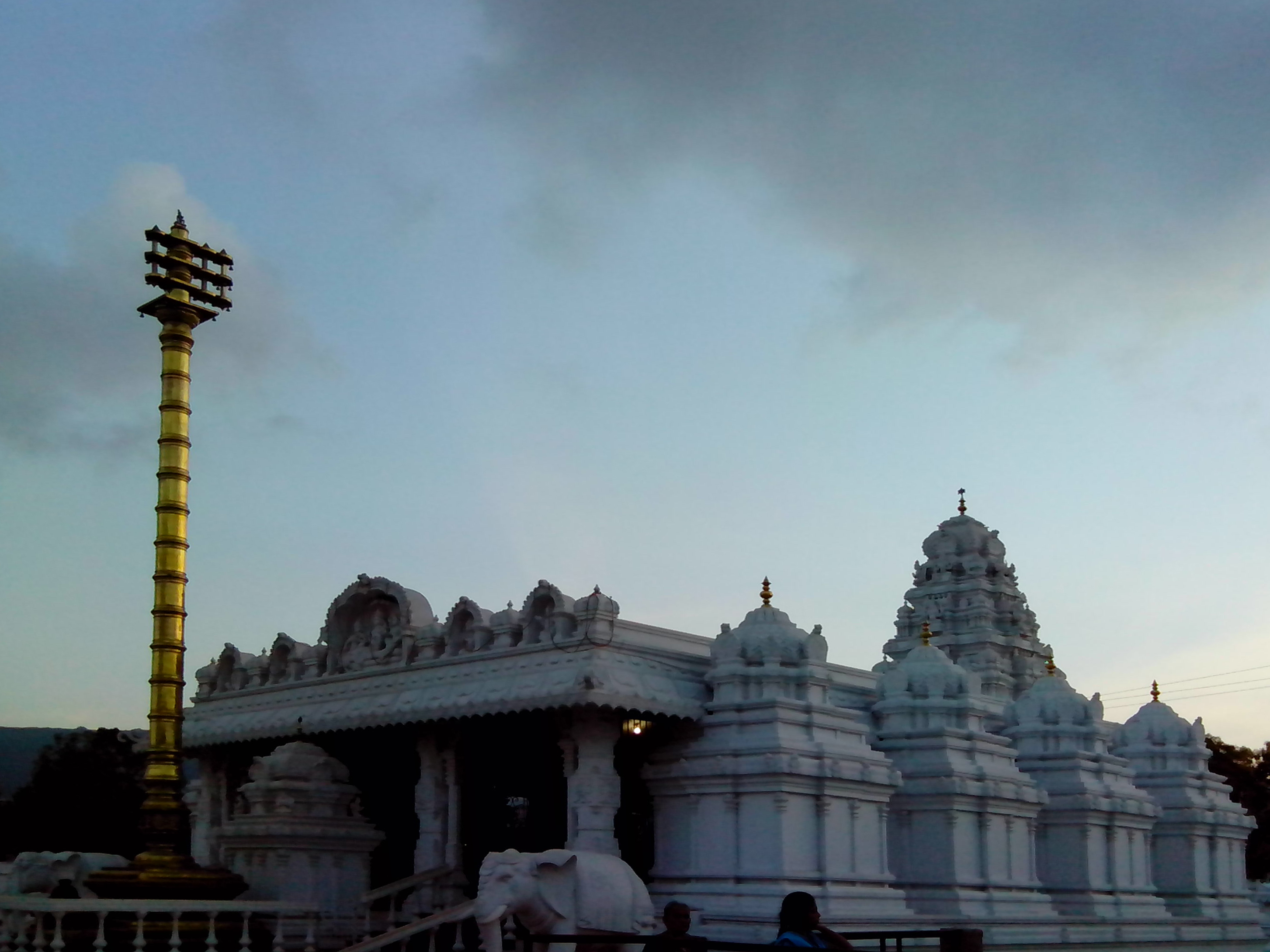 Ashta Lakshmi Temple view at Kommadi, Madhurawada, Visakhapatnam